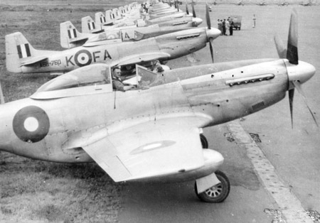 North American P-51D Mustangs operated by No. 82 Squadron RAAF in Japan in 1947.